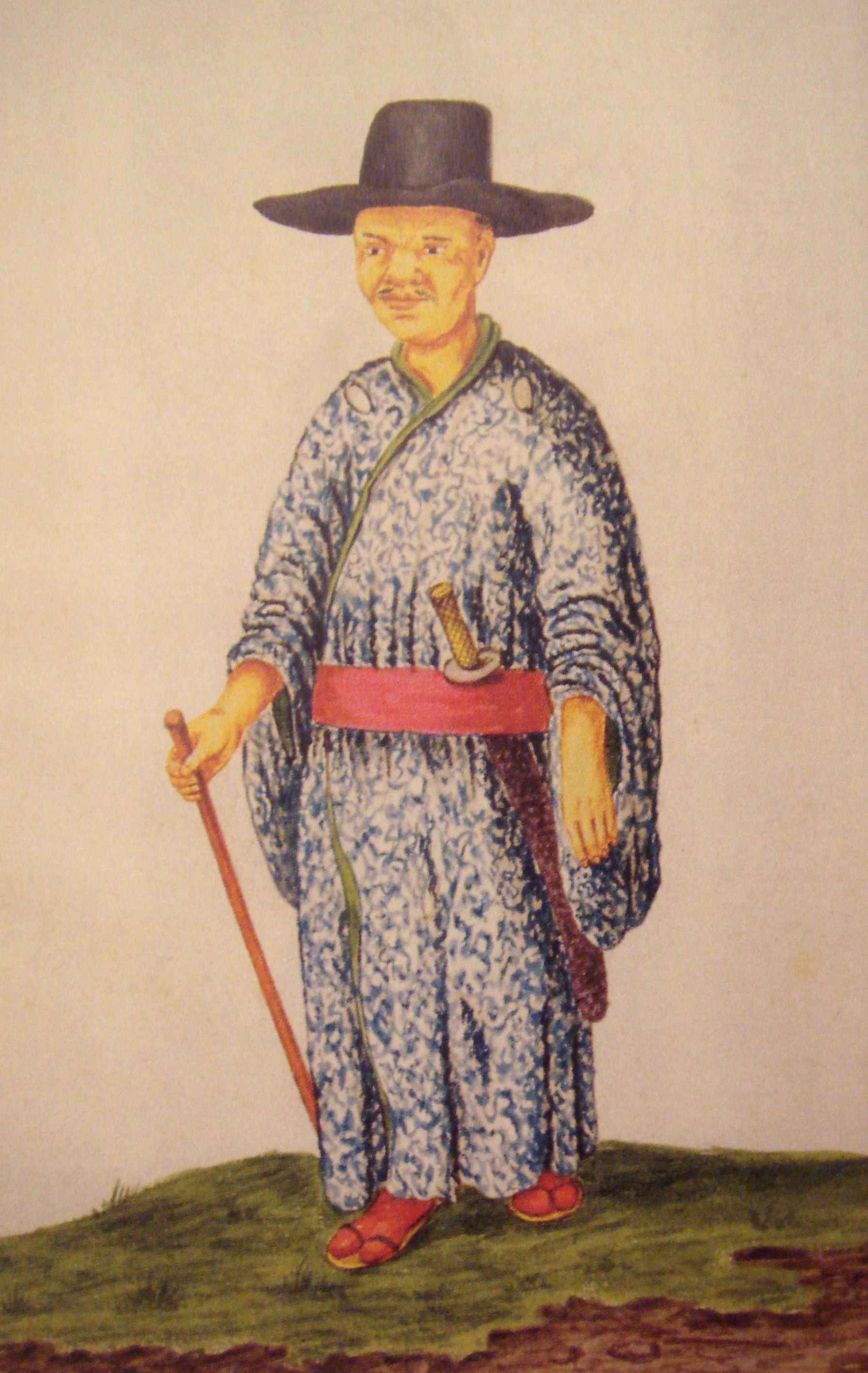 Japanese_Christian_in_Jakarta_circa_1656_by_Andries_Beeckman